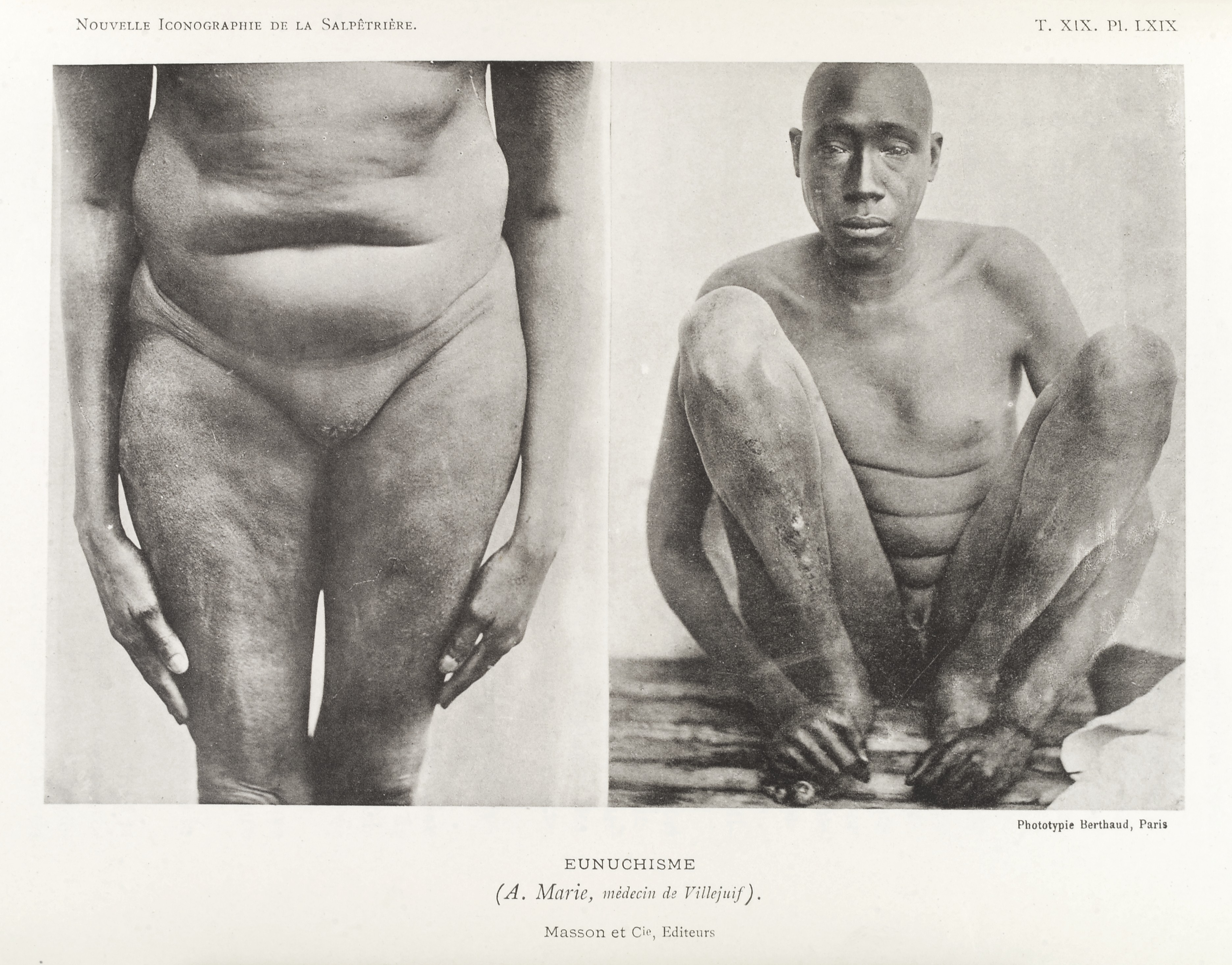 A man suffering from condition called Eunuchism related to the pituitary gland and testosterone production. Detail of stunted growth of genitals photo of the man in squatting position. General Collections Keywords: Genitals; Classification; Abnormal; Degenerative disease; Eugenics; Anatomy; Abdomen; Eunuch